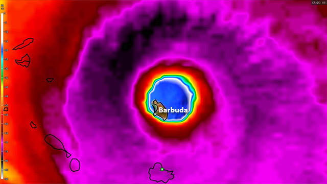 Eye of hurricane Irma over the island of Barbuda, dependency of the State of Antigua and Barbuda, Leeward Islands, Lesser Antilles, Caribbean, on 2017-09-06 ca. 00:00 GMT